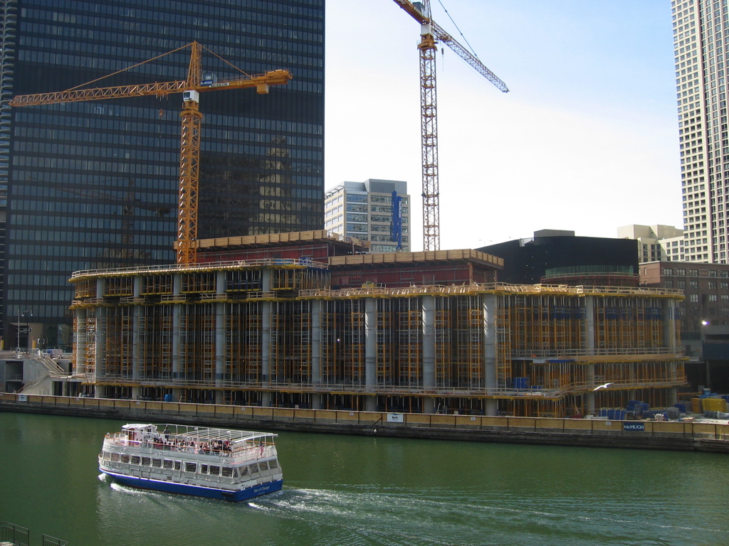 The Trump International Hotel and Tower under construction in Chicago, Illinois. Foreground, Star of Chicago, sightseeing boat.